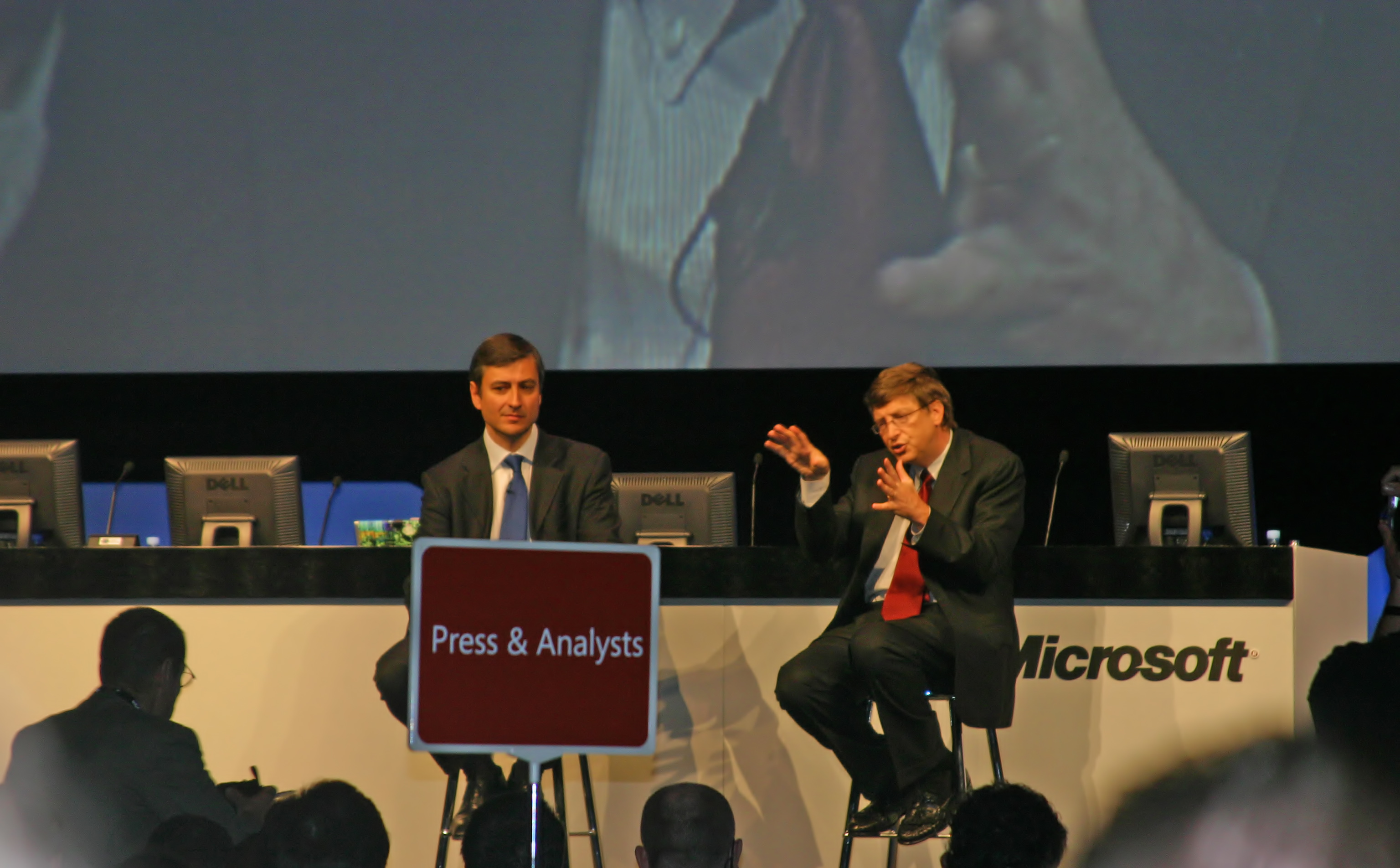 Bill Gates, 16. November 2004 at IT-Forum in Copenhagen.